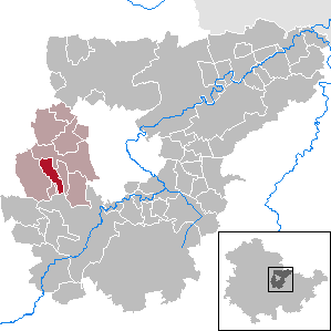 Bechstedtstraß in Thuringia - District Weimarer Land